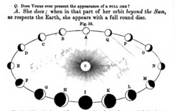 figure of Venus as seen from Earth and Question "Does Venus ever present the appearance of a full orb?" from page 40 of Hannah Bouvier's familiar astronomy 1857 edition